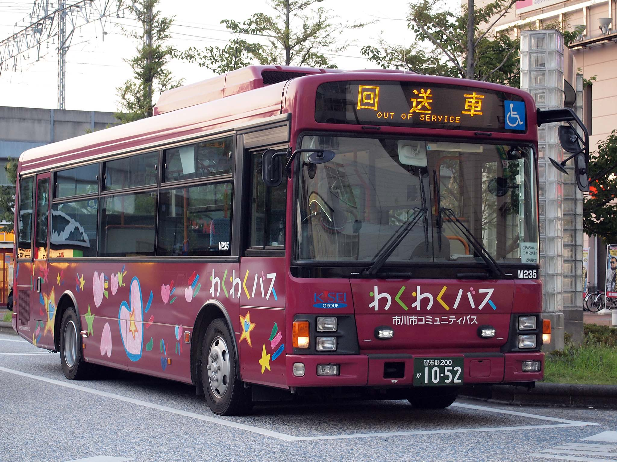 Fleet of Keisei Transit Bus, for Ichikawa City Community Bus, named "Wakuwaku Bus" since October 2012. Model： Isuzu Erga Mio PDG-LR234J1 License plate：CBN200 KA1052 Place：Myoden Station